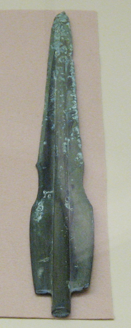 Japanese bronze sword in yayoi period